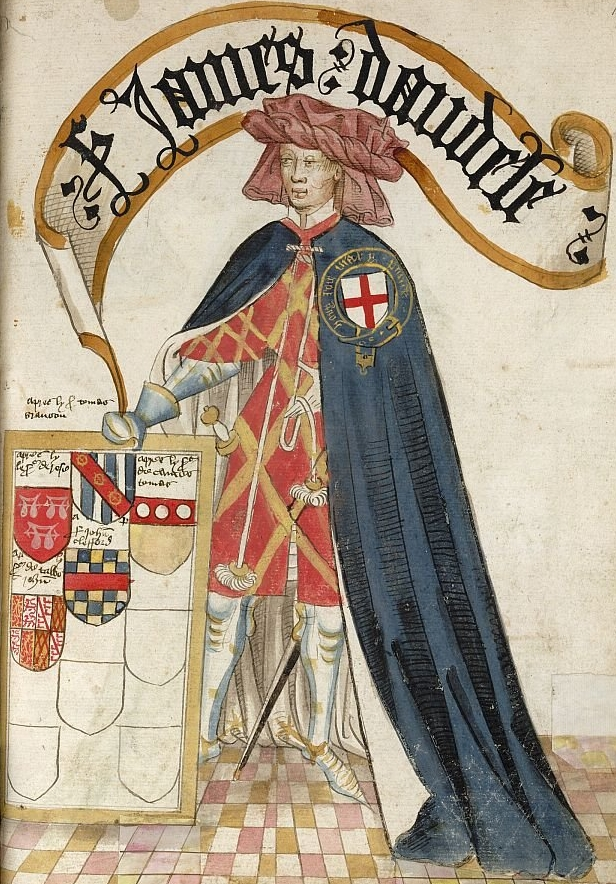 James d'Audele, Sir James De Audley, KG from the Bruges Garter Book, 1430/1440, BL Stowe 594